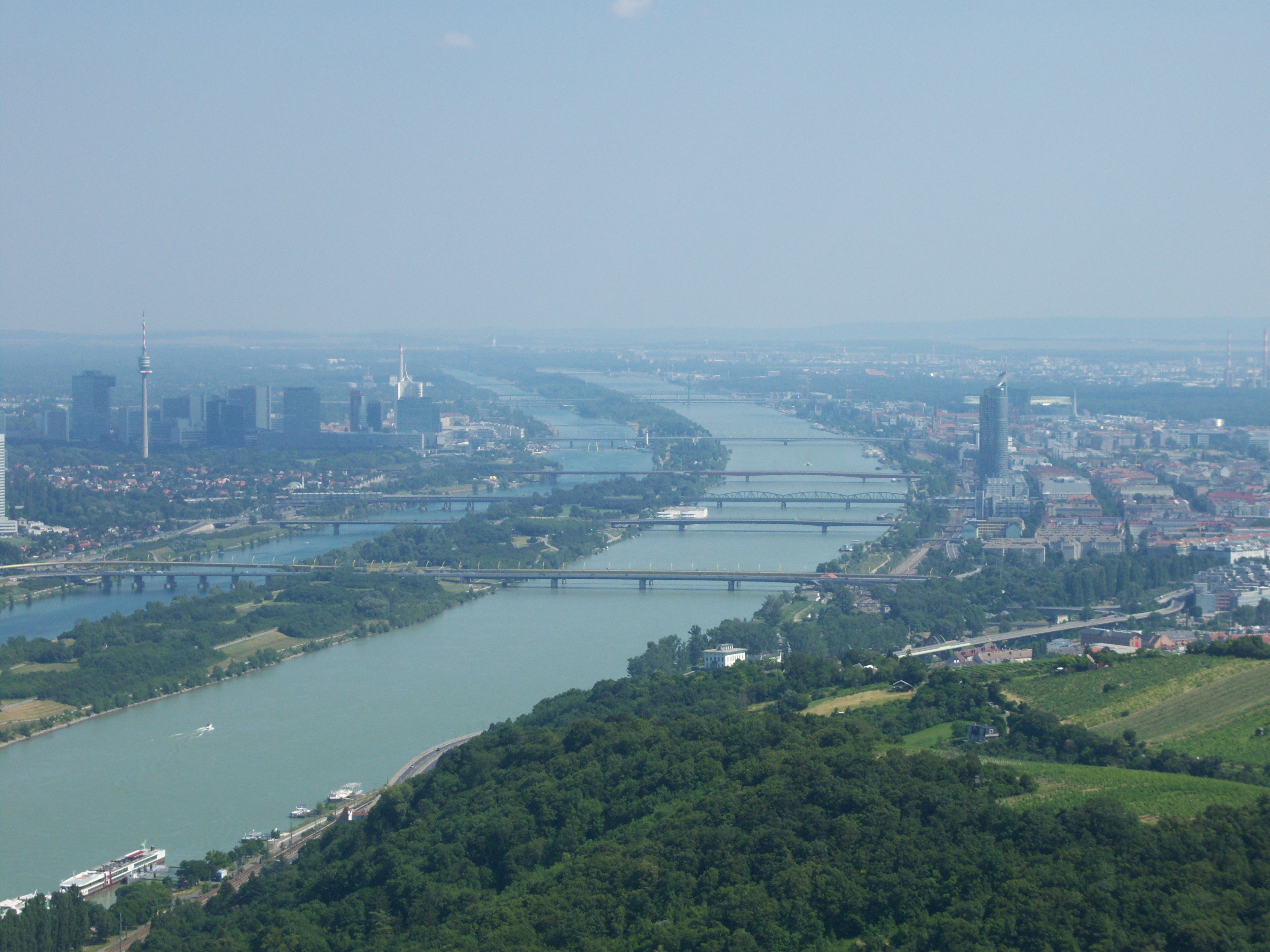 Bridges over the Danube in Vienna